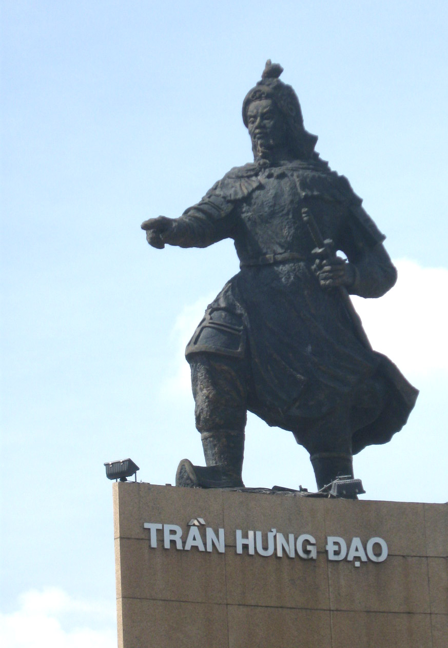 Tran Hung Dao statue on a street in 1st district, Saigon